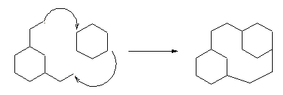 Cyclophanes construction